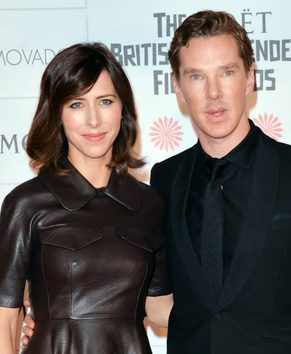 Sophie Hunter, London, 2014